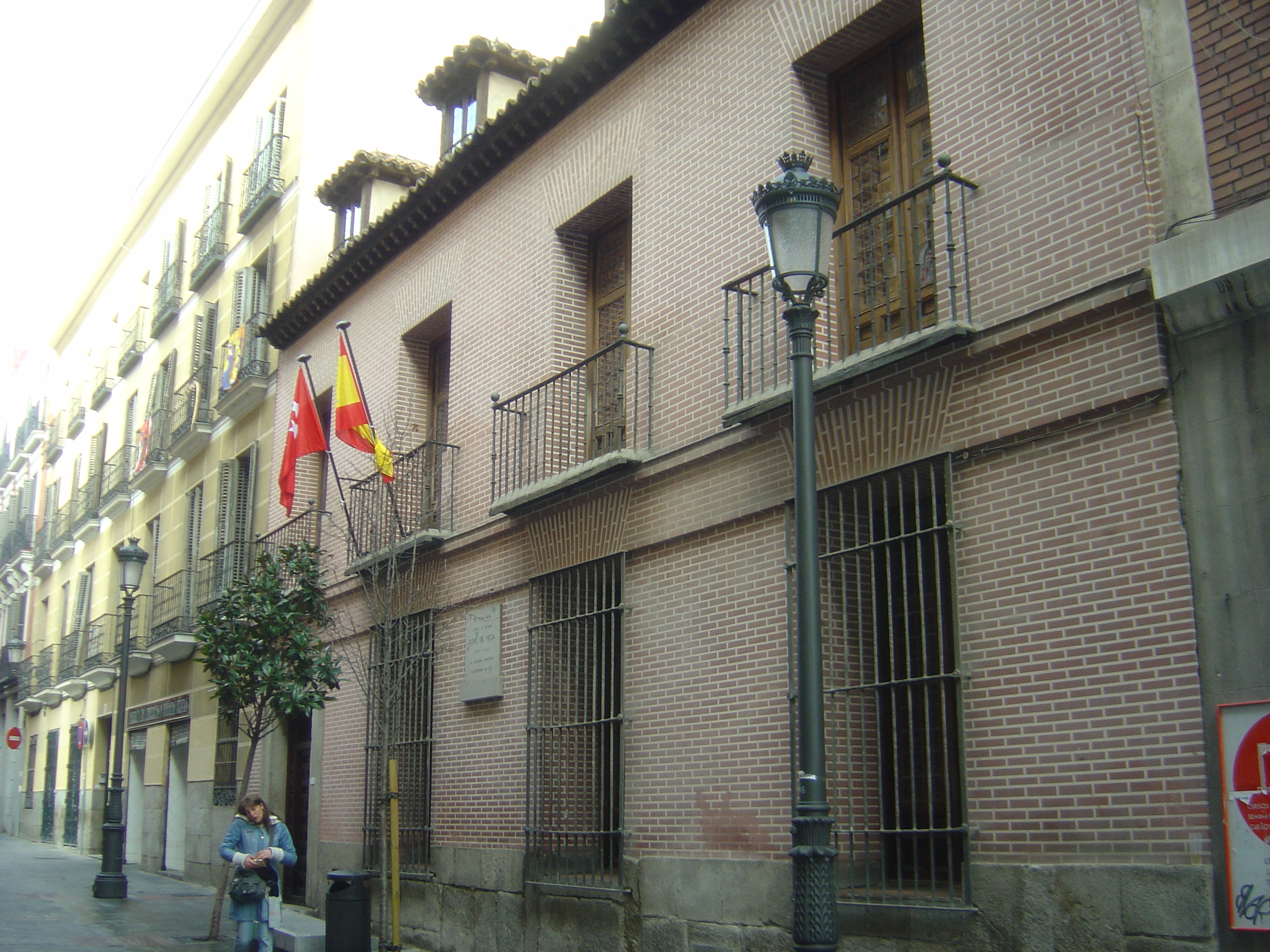 House-Museum Lope de Vega, Madrid